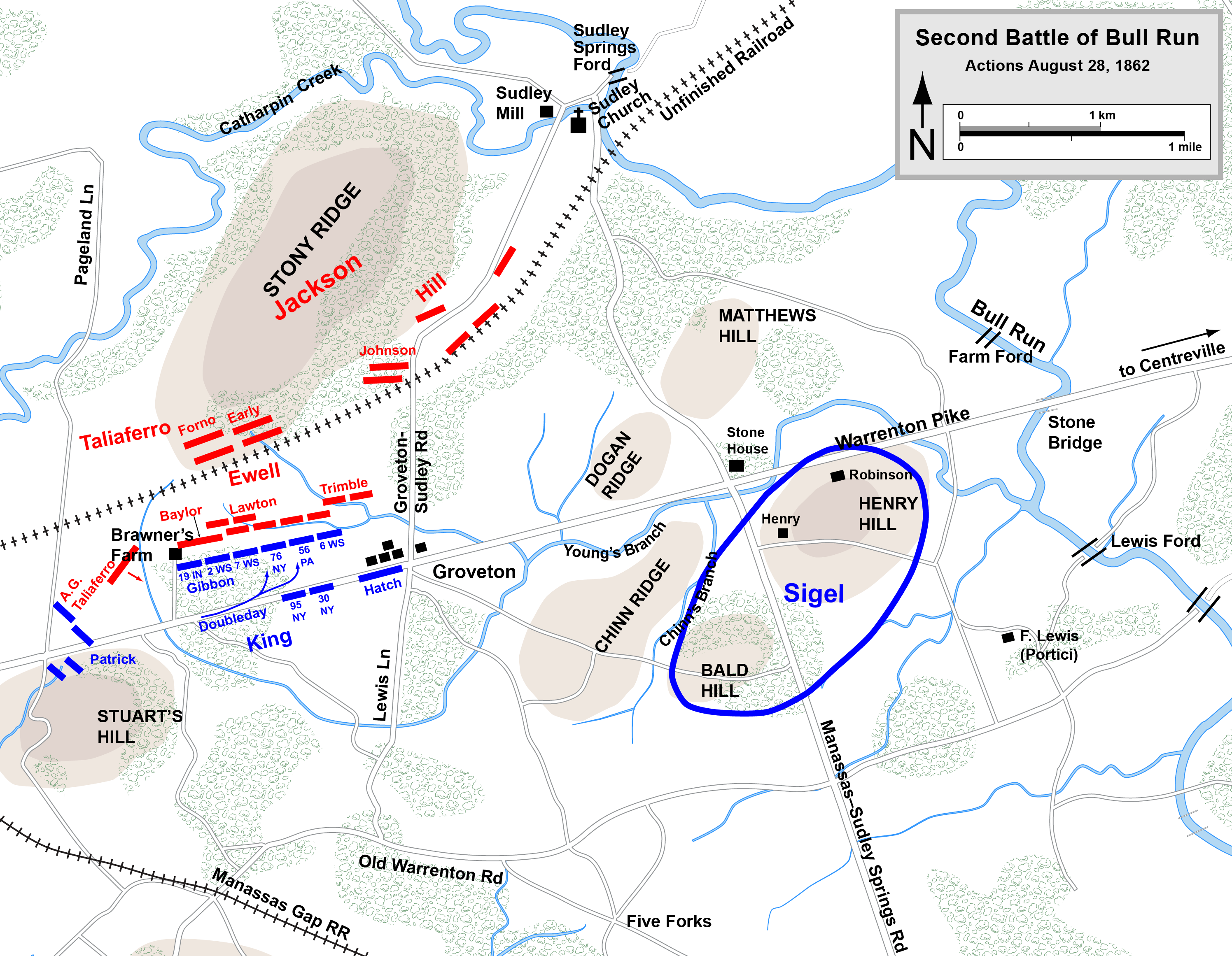 Map of the Second Battle of Bull Run of the American Civil War